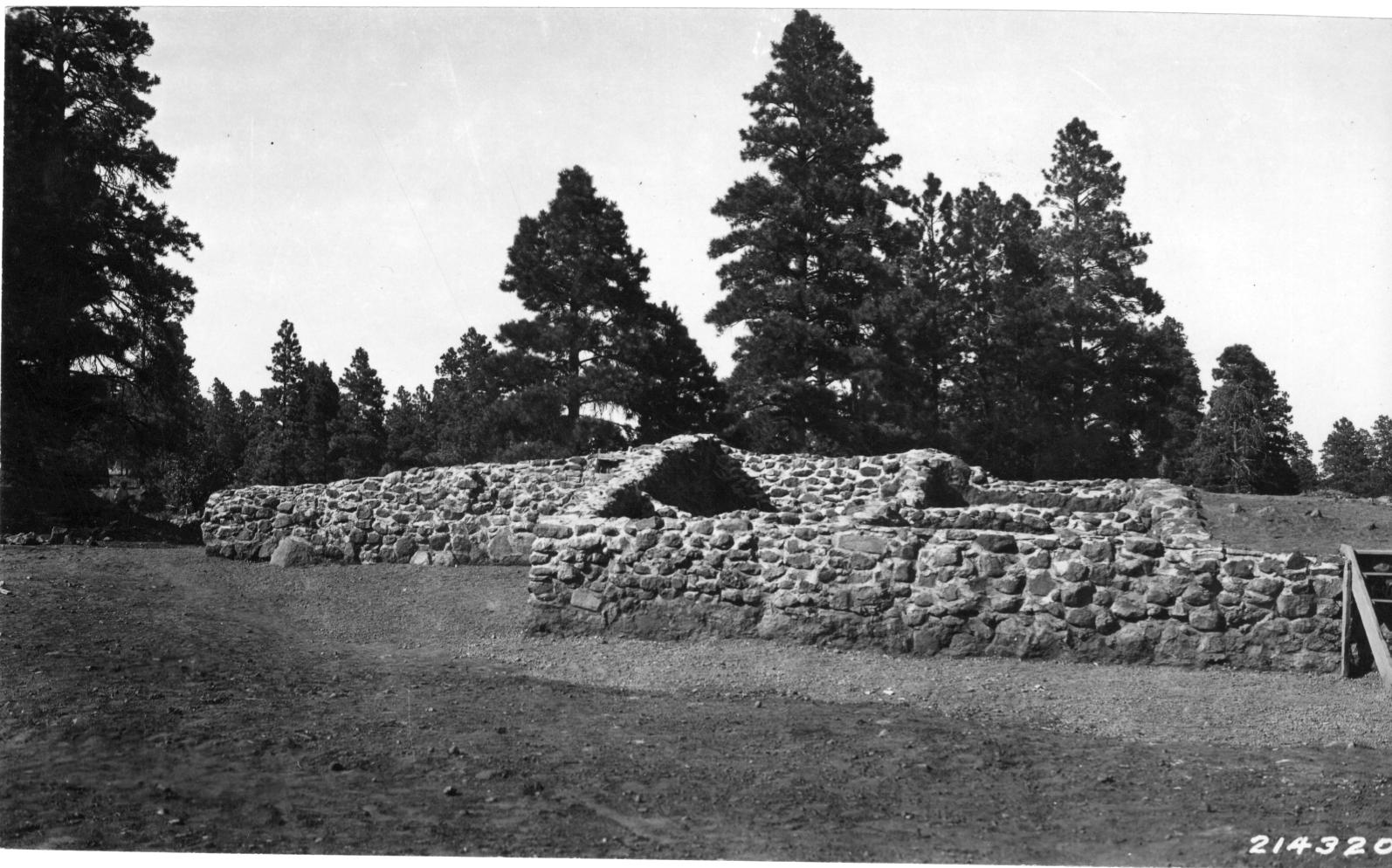 Elden Ruins, a prehistoric Indian village adjacent to Flagstaff. The remnants of walls have been stabilized and steps installed to facilitate visitation. Archaeological studies continue there today. Photo taken in 1926 by L. D. Memley. Credit: USDA Forest Service, Coconino National Forest